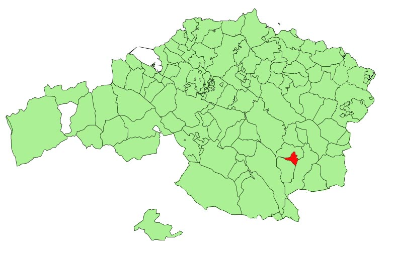 Itzurza municipality in the province of Biscay